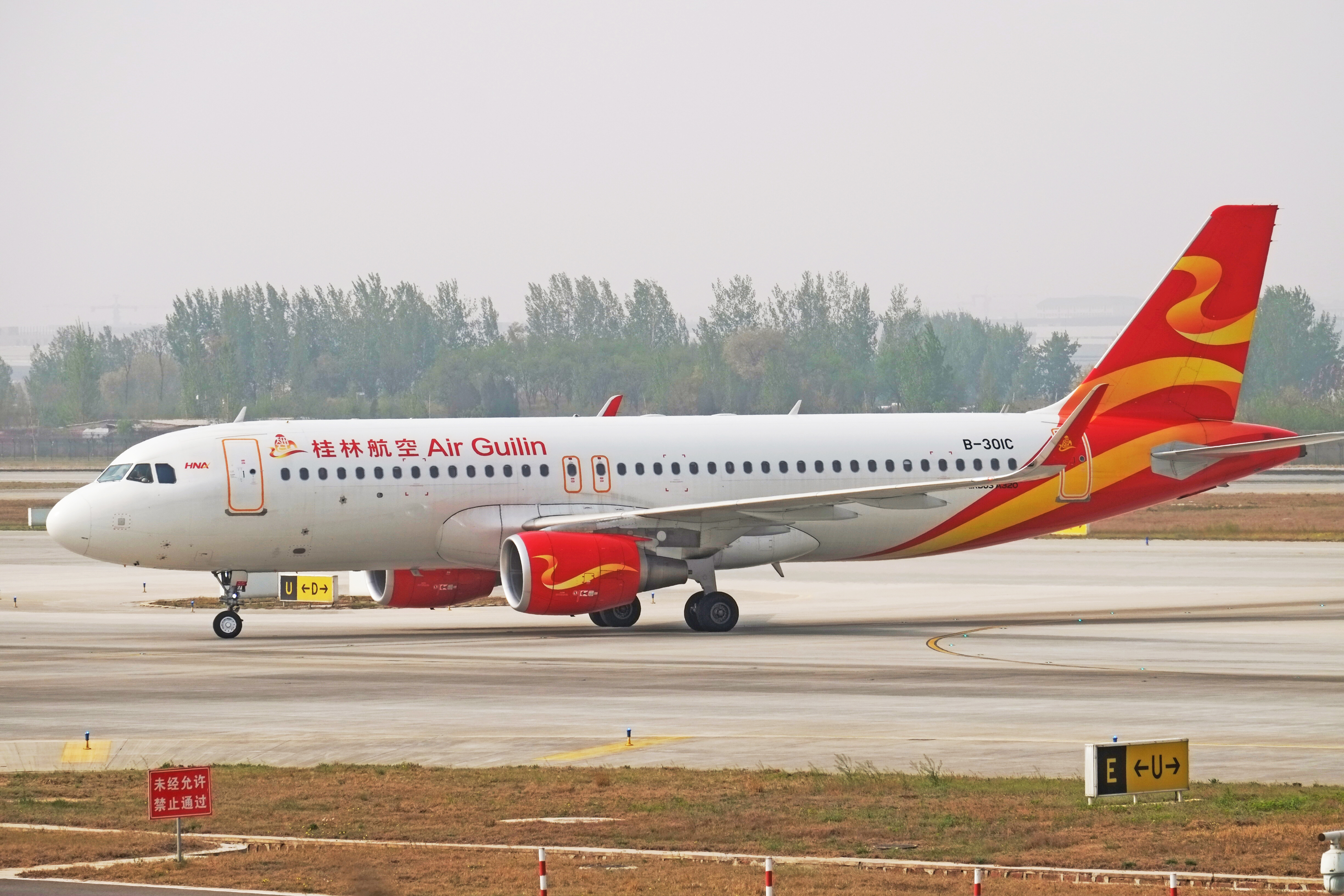 B-301C on flight GT1010 from Yantai at CGO